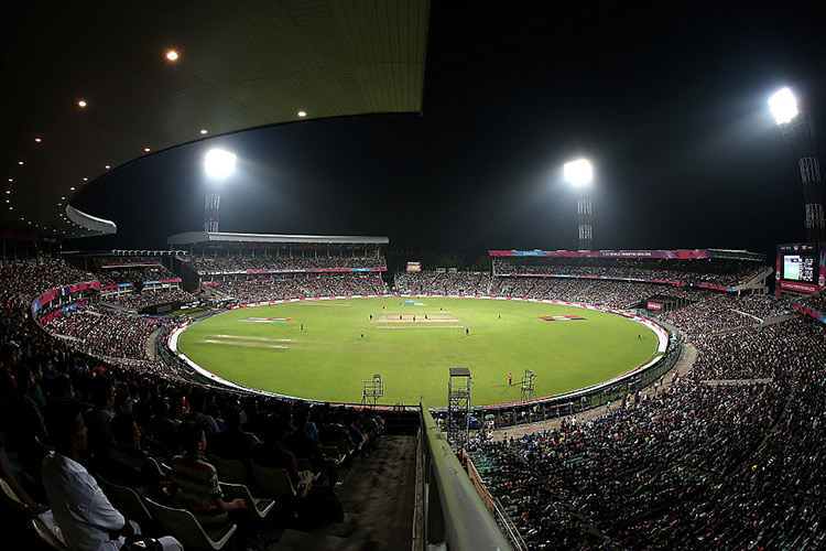 Eden Gardens under floodlights during a match.